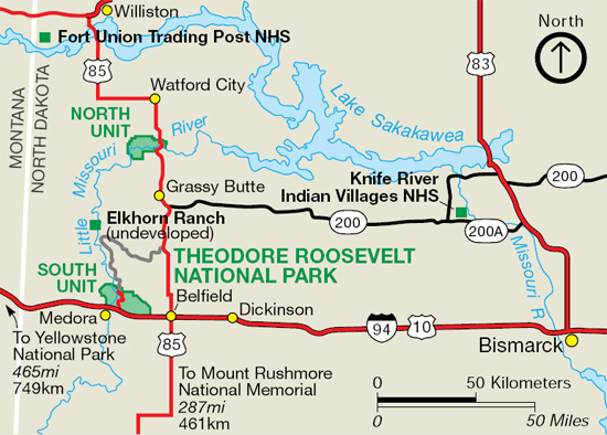 Regional map of Theodore Roosevelt National Park, showing its location in reference to I-94, other major roads, other national park sites, and towns in this area of western North Dakota.